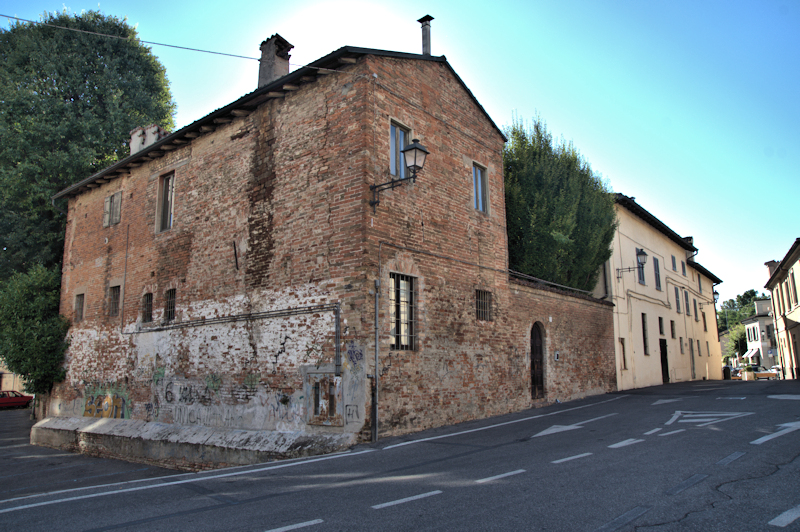 Palazzo Terni in Crema